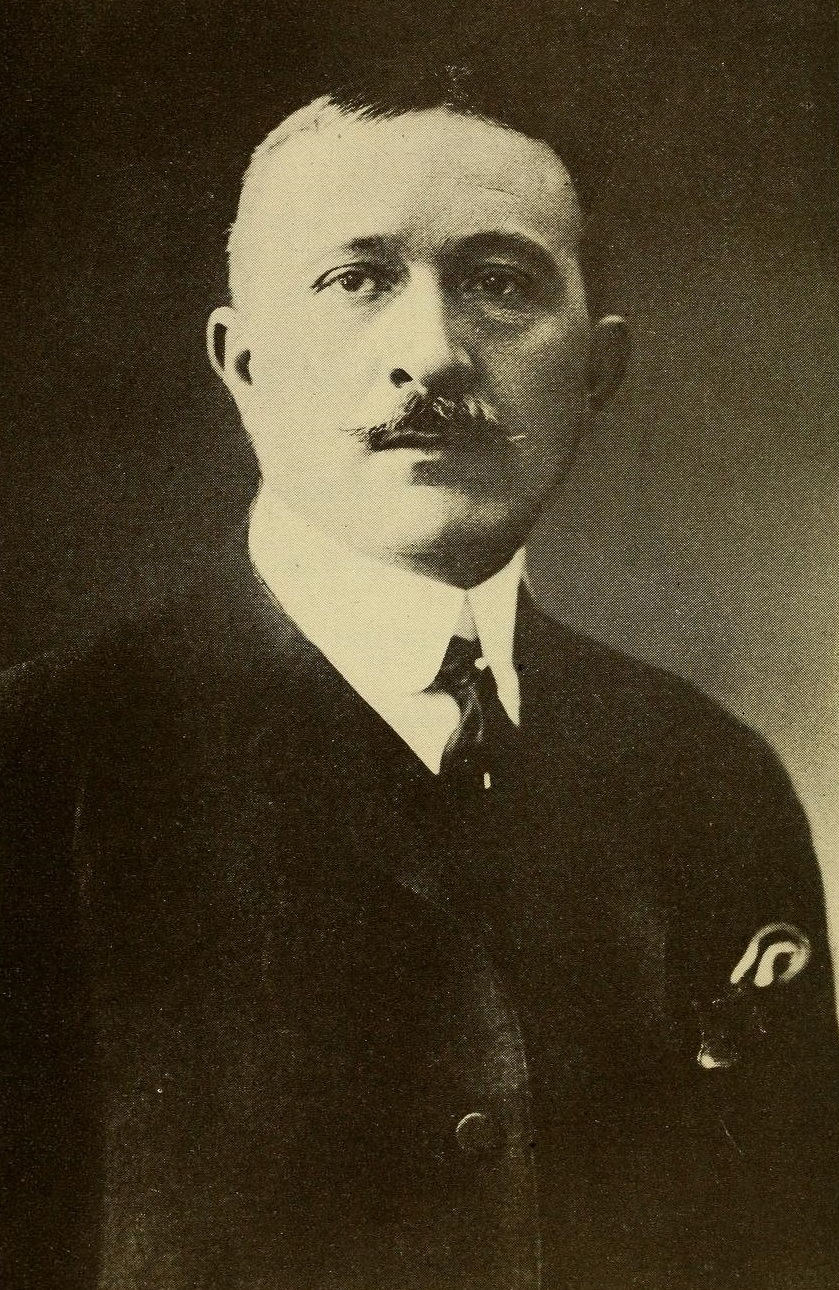 Portrait of Jean Raphaël Adrien René Viviani